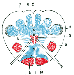 Transverse section passing through the sensory decussation. Schematic. (Testut.) 1. Anterior median fissure. 2. Posterior median sulcus. 3, 3’. Head and base of anterior column (in red). 4. Hypoglossal nerve. 5. Bases of posterior column. 6. Gracile nucleus. 7. Cuneate nucleus. 8, 8. Lemniscus. 9. Sensory decussation. 10. Cerebrospinal fasciculus.